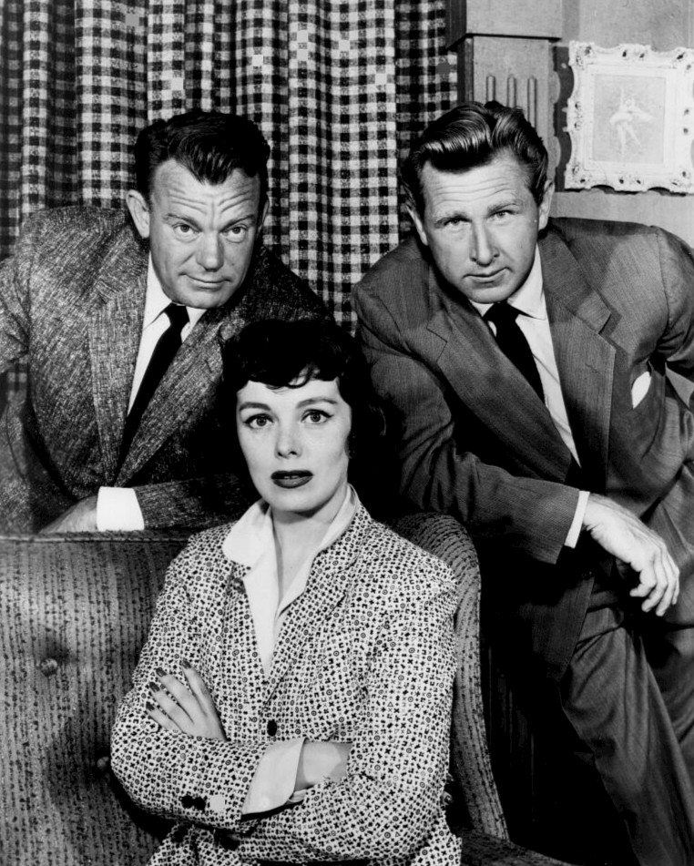 Photo of Dennis O'Keefe, Phyllis Kirk and Lloyd Bridges from the drama-anthology television series Climax! This episode is "Edge of Terror". Bridges played a bandit/killer who terrorized Kirk and O'Keefe. According to IMDb, this episode aired Aug. 11, 1955. Date below may be incorrect.